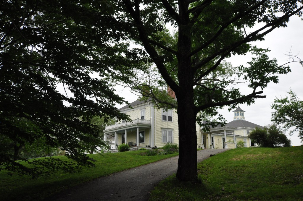 The Fred Nickels House in Cherryfield, Maine, part of the Cherryfield Historic District.